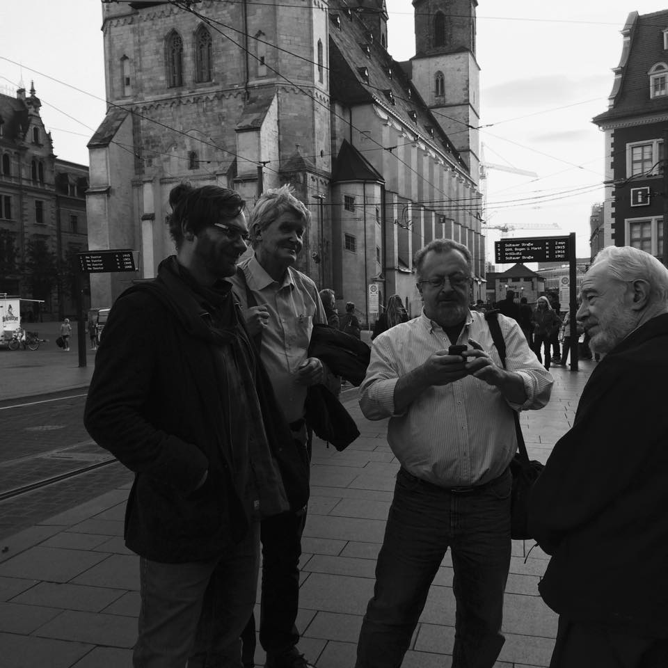 With Herbert S. Lewis, Robin Palmer, and Immo Eulenberger at Halle, September 2015.